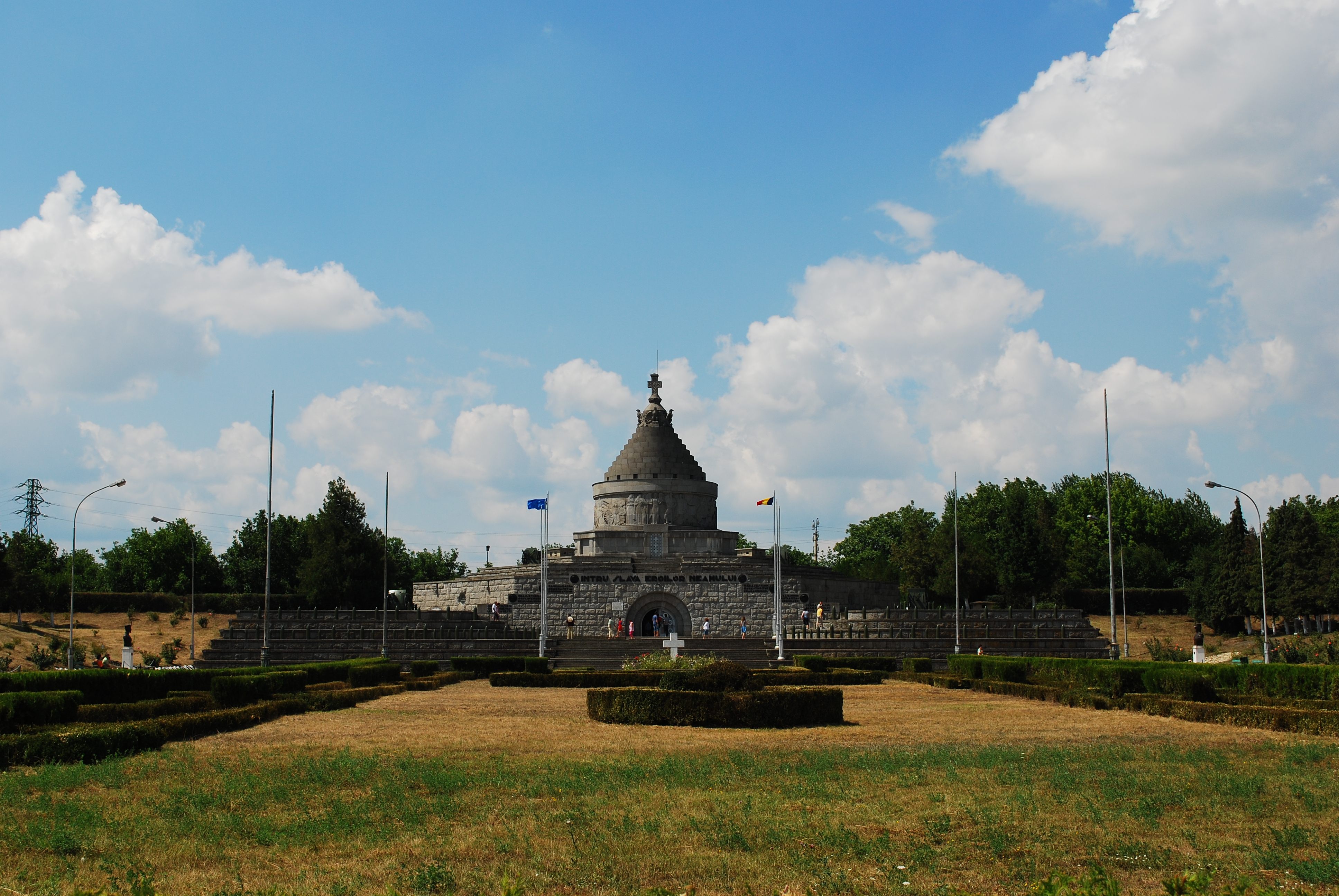 The Mărăşeşti Mausoleum, a World War I monument near the town of Mărăşeşti, Romania